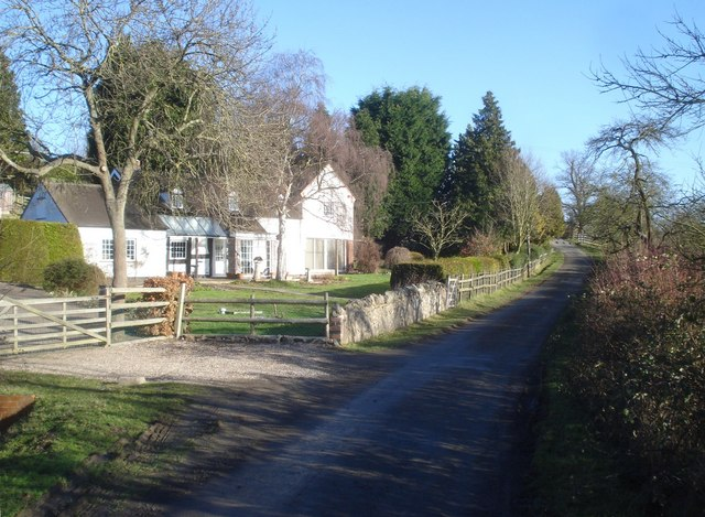 Large house at Chandler's Cross View northwards along the lane and to one of the restored cottages on the common.